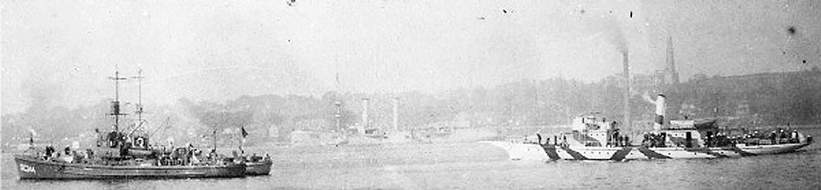 The United States Navy submarine chaser moored next to an unidentified submarine chaser (left), and the patrol vessel (right, in dazzle camouflage)